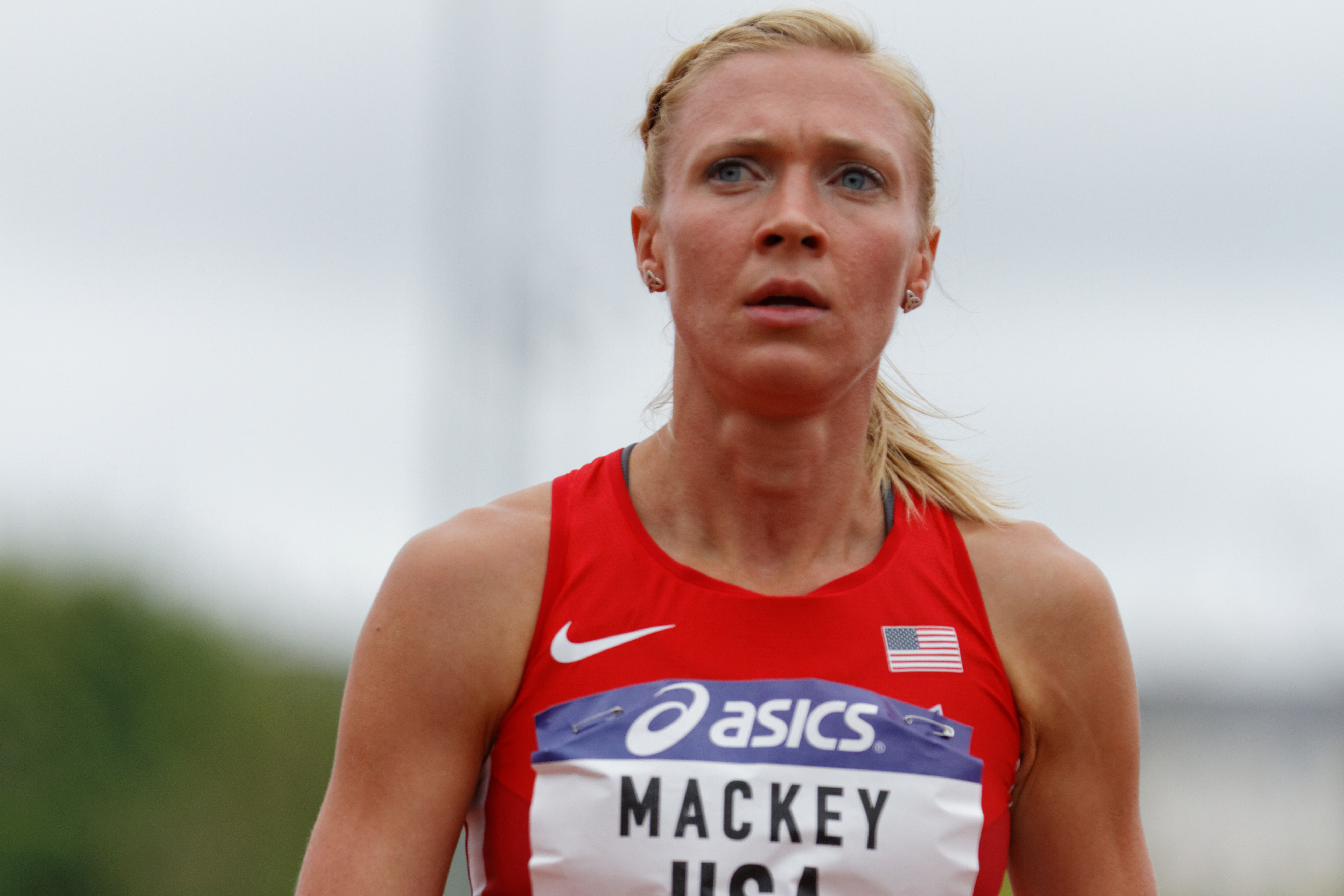 Katie Mackey of the United States competing at DécaNation 2014 in the 1500m.